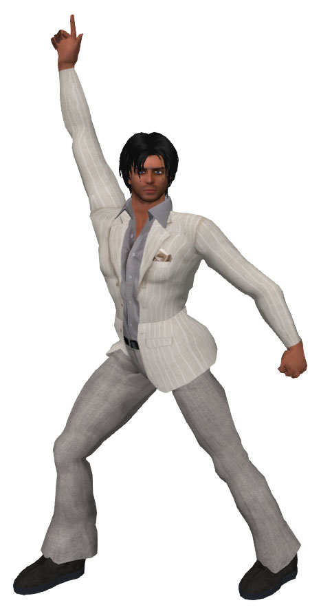 John Travolta's famous pose in the movie "Saturday Night Fever" (1977)